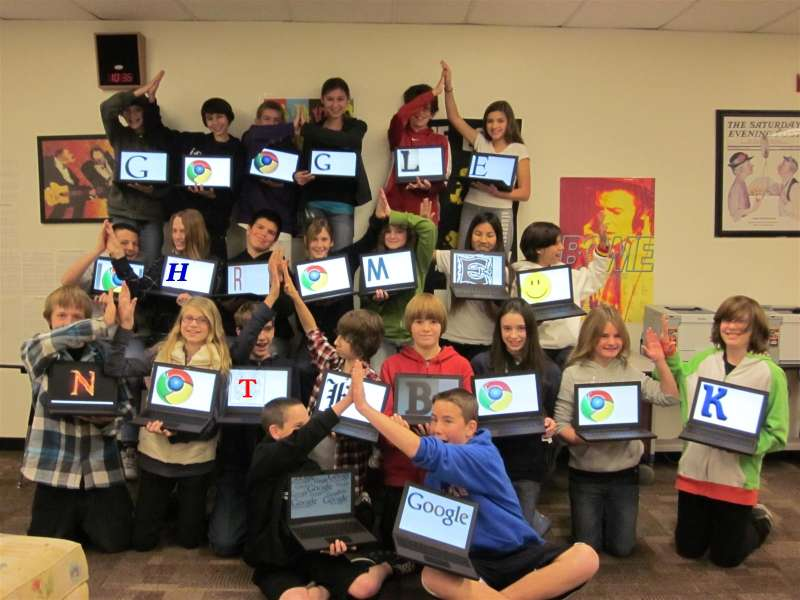 One picture of a group of pictures offered by Mr. Jeff Billings, IT Director, PVUSD. Parents have granted permission to the Paradise Valley Unified School District to have the students pictures taken and used for publications.